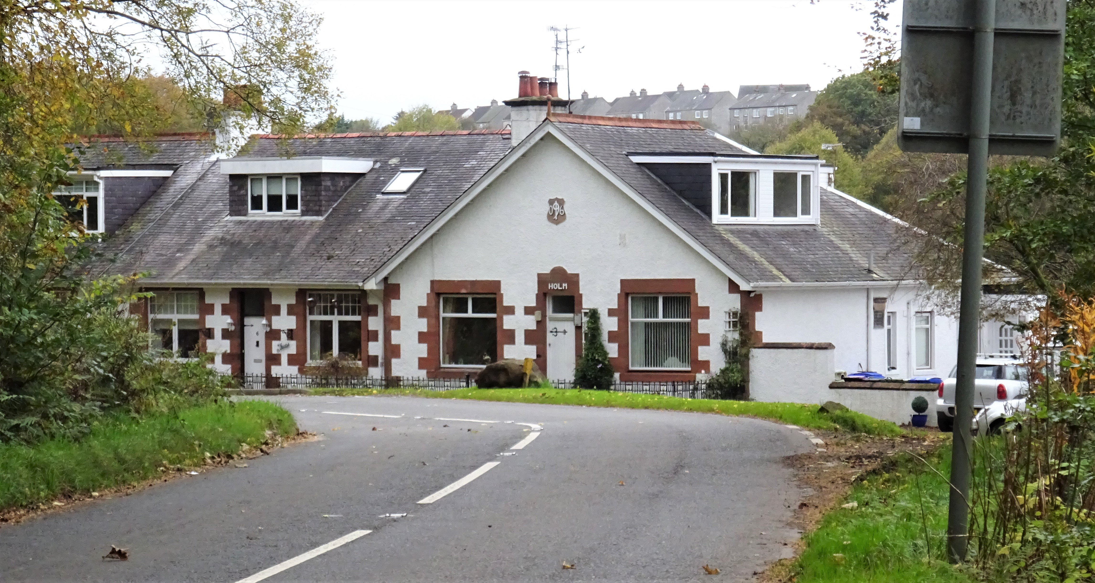 The 1906 Gadgirth Holm Cottages, Gadgirth, By Annbank, South Ayrshire.